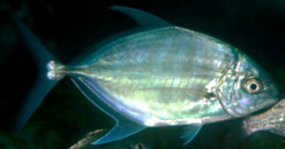 Carangoides ferdau.A cut and rotated version of the image for use in taxobox